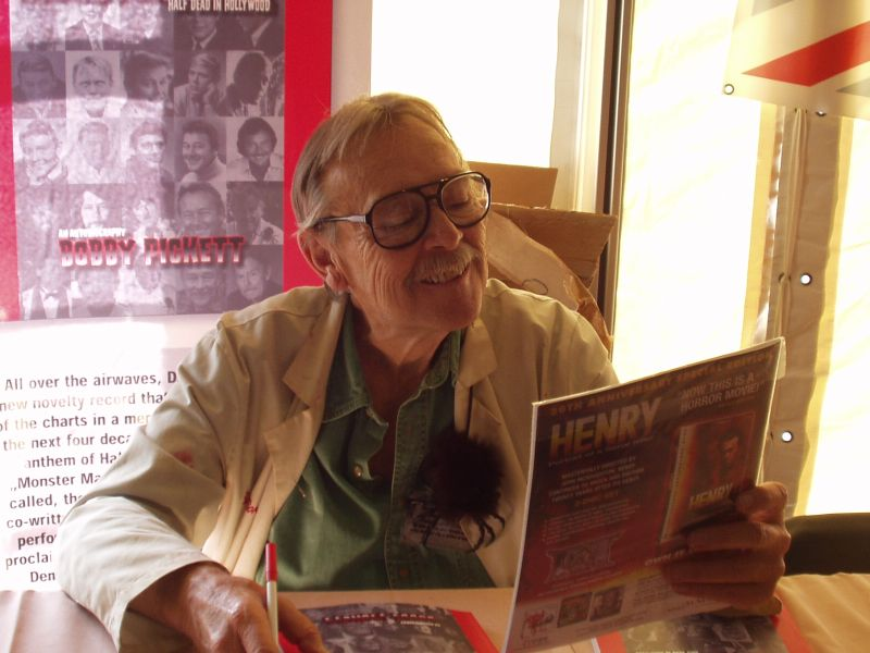 American singer Bobby "Boris" Pickett of Monster Mash fame, selling copies of his autobiography at Chiller Theatre horror convention, New Jersey, October 2005.